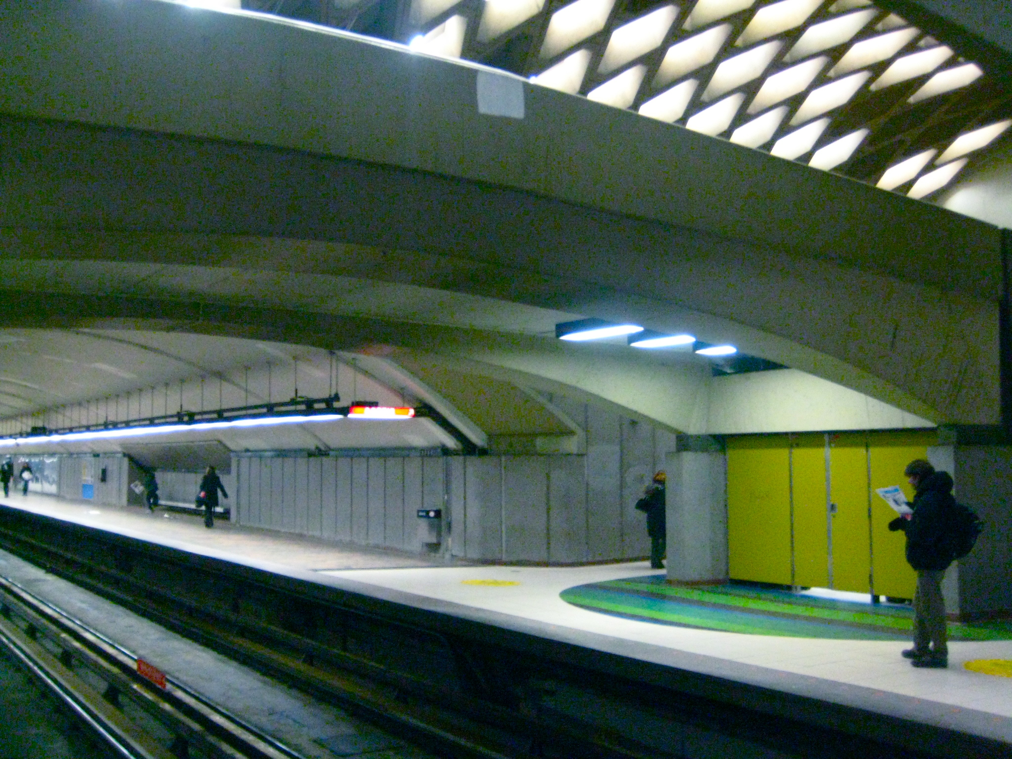 Jarry Metro station platform